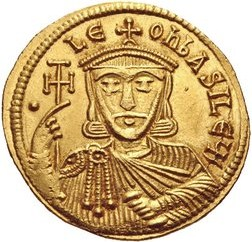 Solidus of Leo V the Armenian.